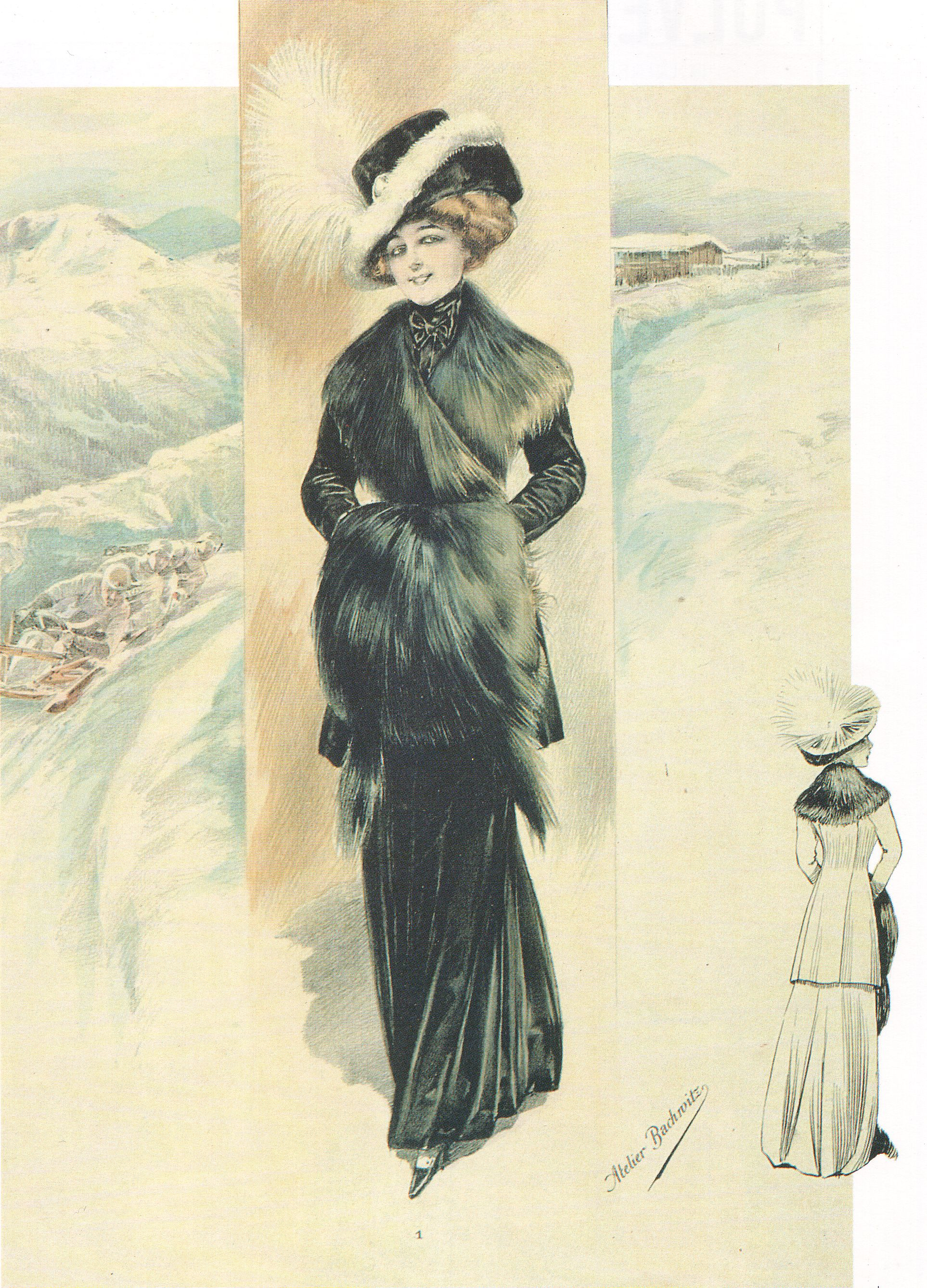 Velvet dress with collar and muff in „fourmilier“ [anteater]. Atelier Bachwitz, Grand Album de Fourrures, 1908-1910.